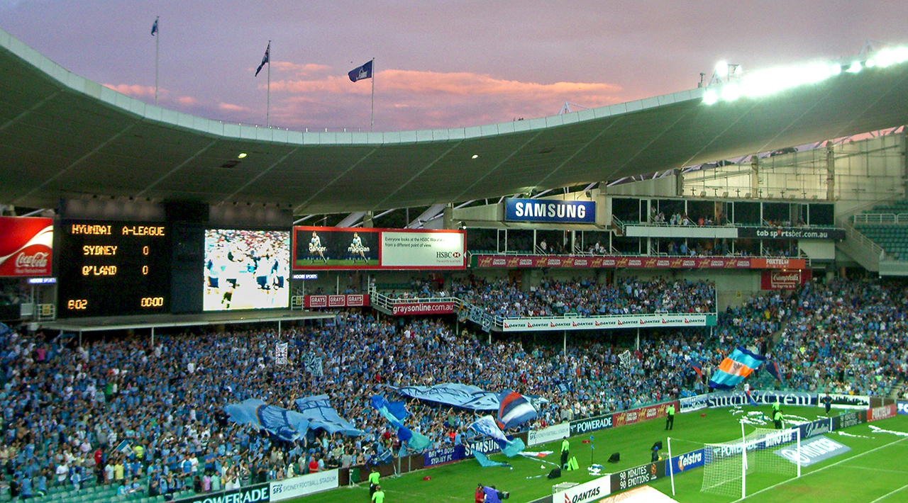 Author's own photo, taken in Sydney during the 2007/8 Hyundai A-League season.